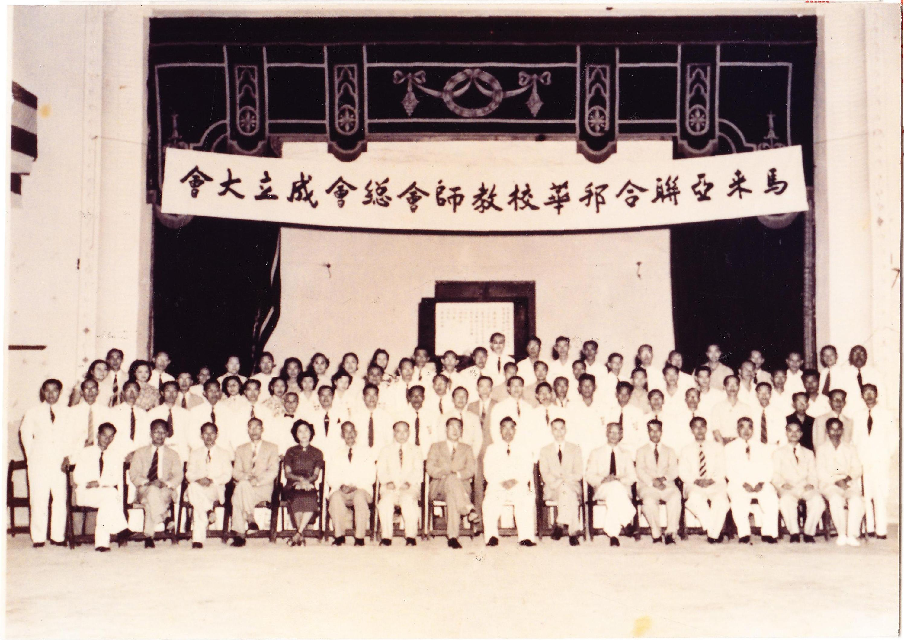 The establishment of United Chinese School Teachers Association of Malaya (now United Chinese School Teachers Association of Malaysia - UCSTAM) in 1951.